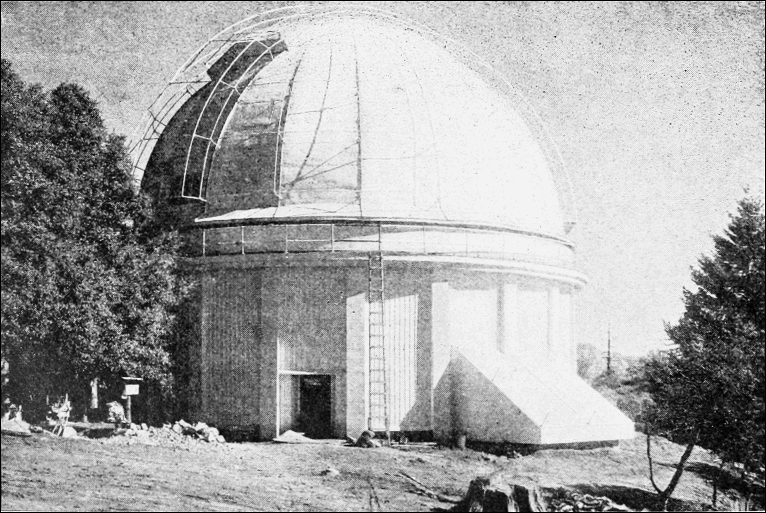 Steel building and 60 inch reflector